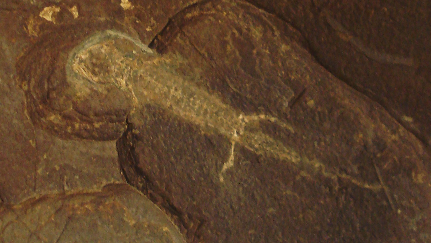 Fossil of micromelerpeton an extinct amphibian